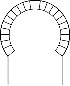 Horseshoe arch